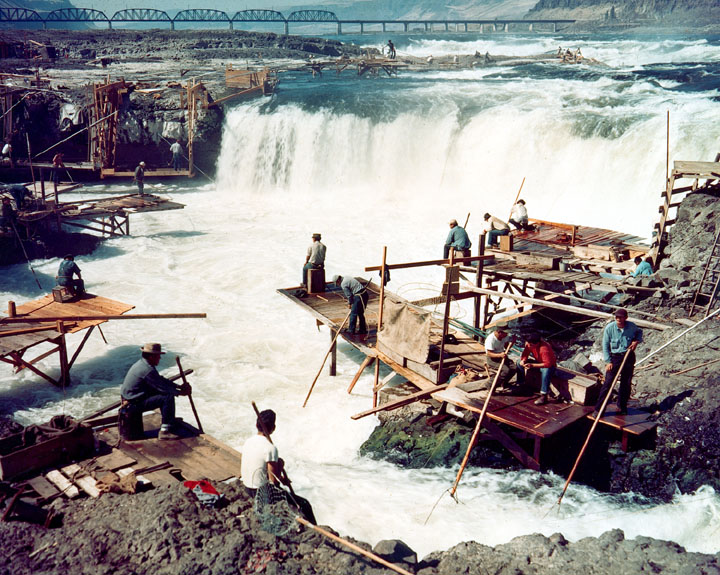 Dipnet fishing at the Cul-De-Sac of Celilo Falls (Columbia River) around 1957, Oregon, Pacific Northwest, USA.